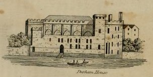 View of Durham House, The Strand, London, from the river.